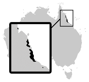 The distribution of the Cophixalus genus in Australia.